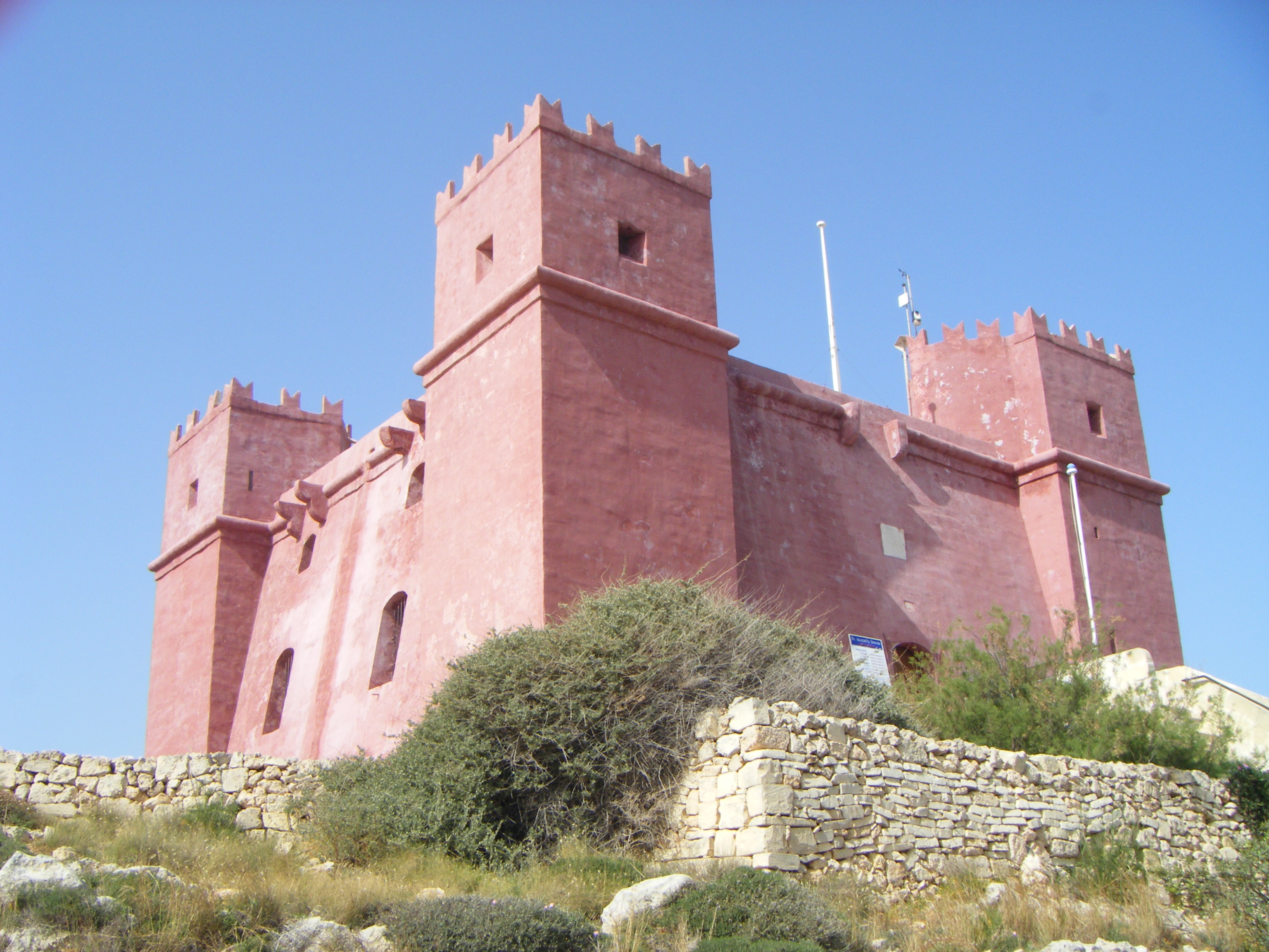 South West Side of St. Agatha's Tower, Malta This media is about Maltese cultural property with inventory number 33.